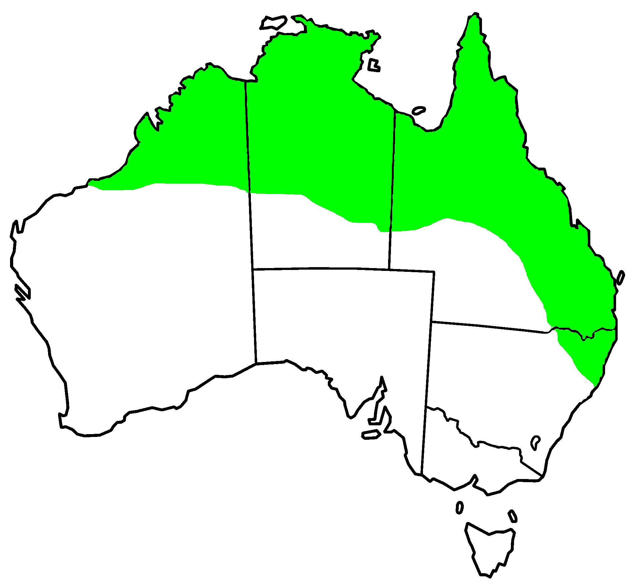 Red-backed Fairy-wren (Malurus melanocephalus) distribution